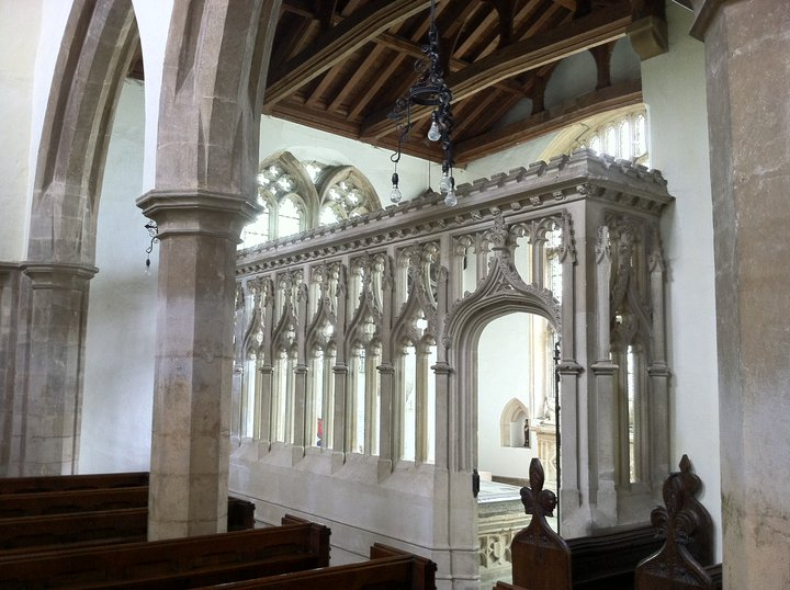 South chapel in St Peter's Church, Lowick, Northamptonshire